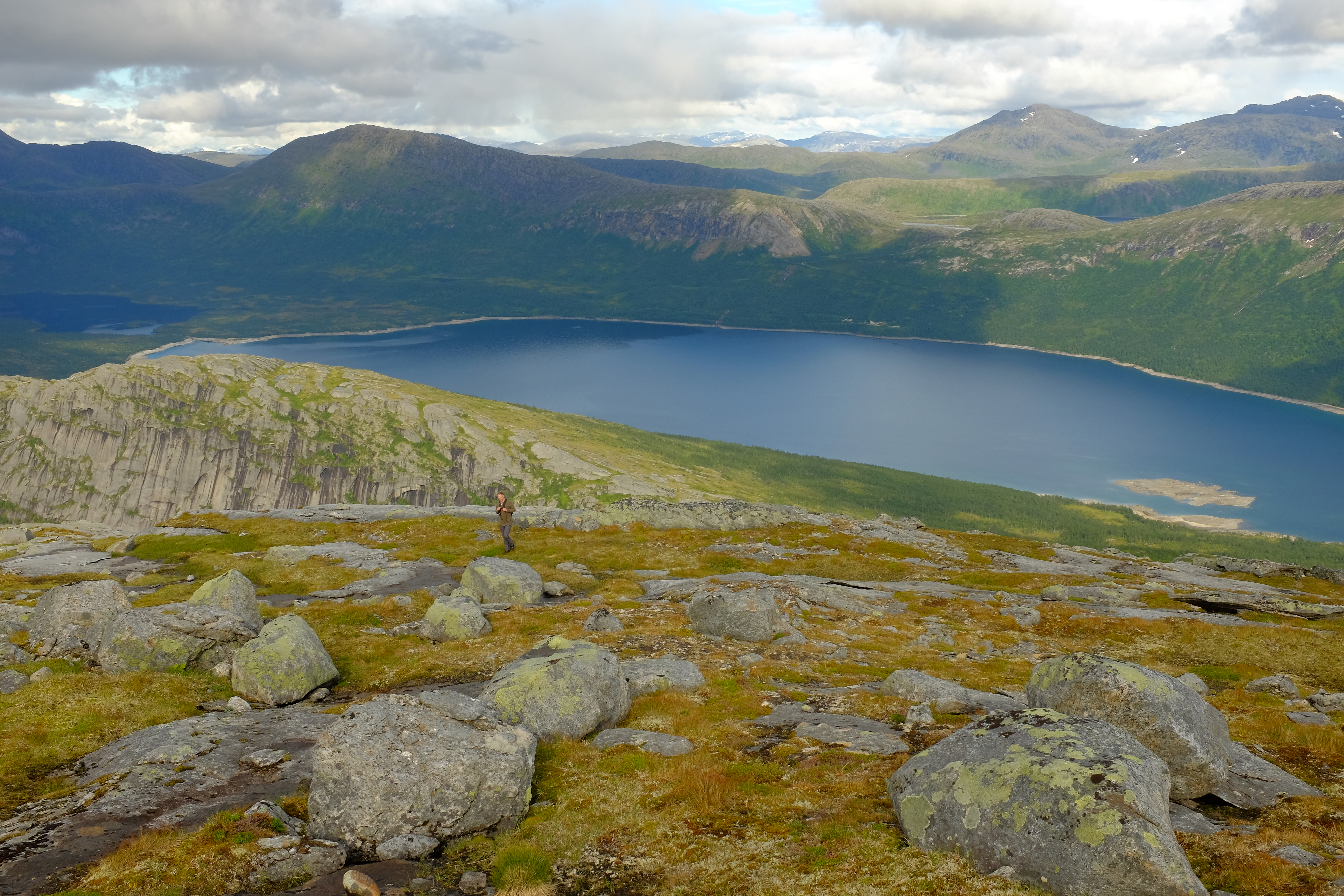 Rekvatnet is a lake in Hamarøy municipality in Nordland seen from Kråkmotinden summit.